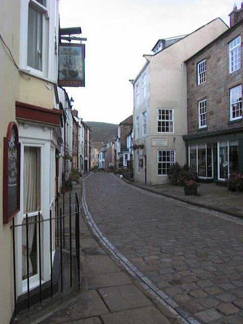 Street in Staithes, N. Yorks